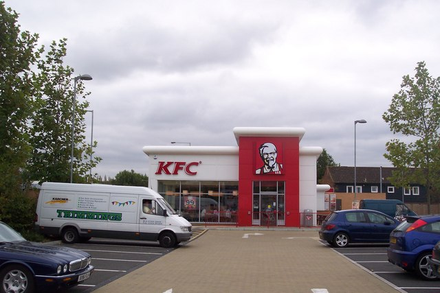 KFC Restaurant, Canterbury Newly opened restaurant in the Maybrook Industrial Estate on Vauxhall Road near the Sturry Road junction.